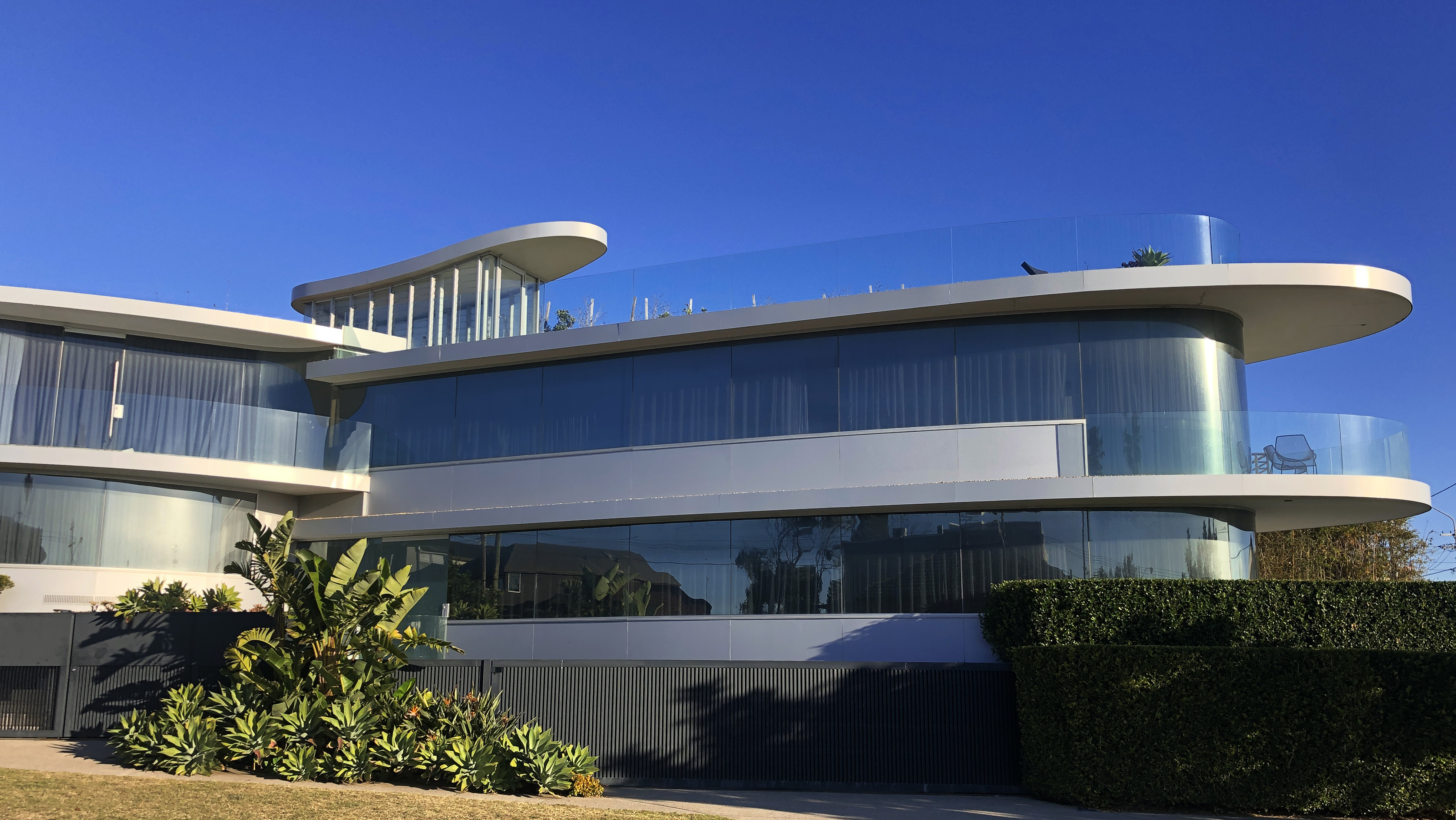 The Butterfly House at 197 Military Road, Dover Heights, NSW 2030 Australia